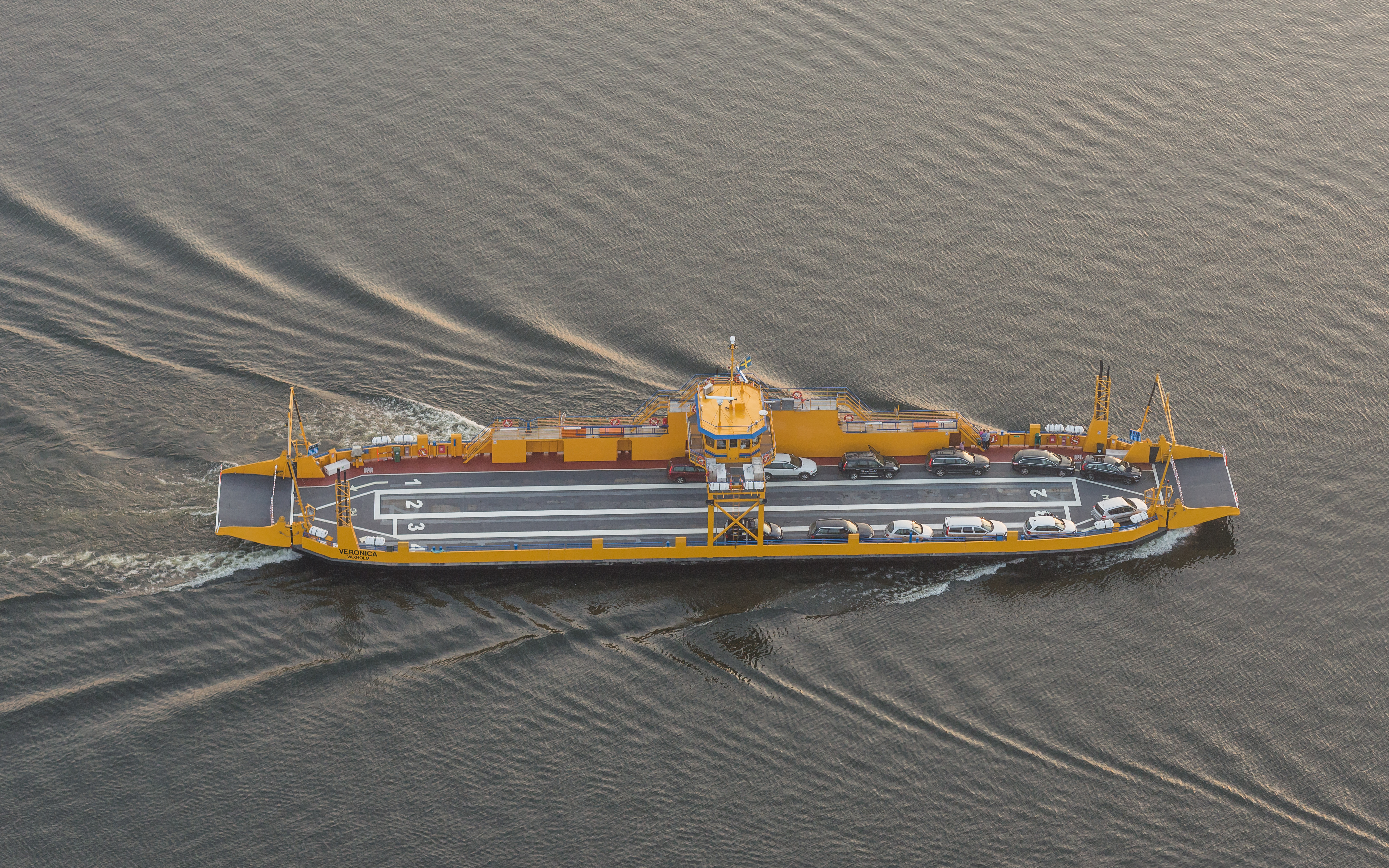 The ferry Veronica between Slagsta and Ekerö.